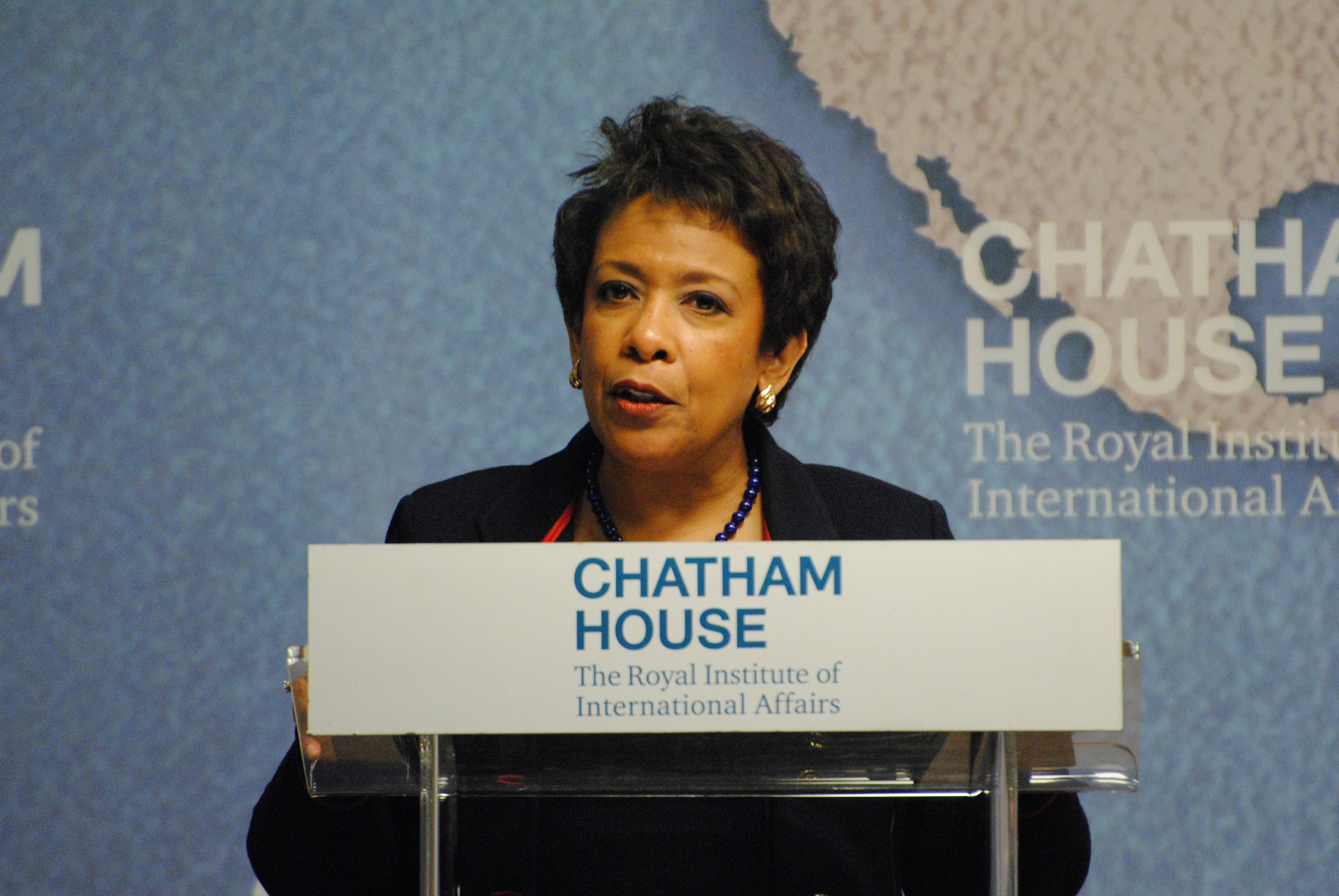 Countering Terrorism: A Global Perspective, 9 December 2015, cht.hm/1PYH54F